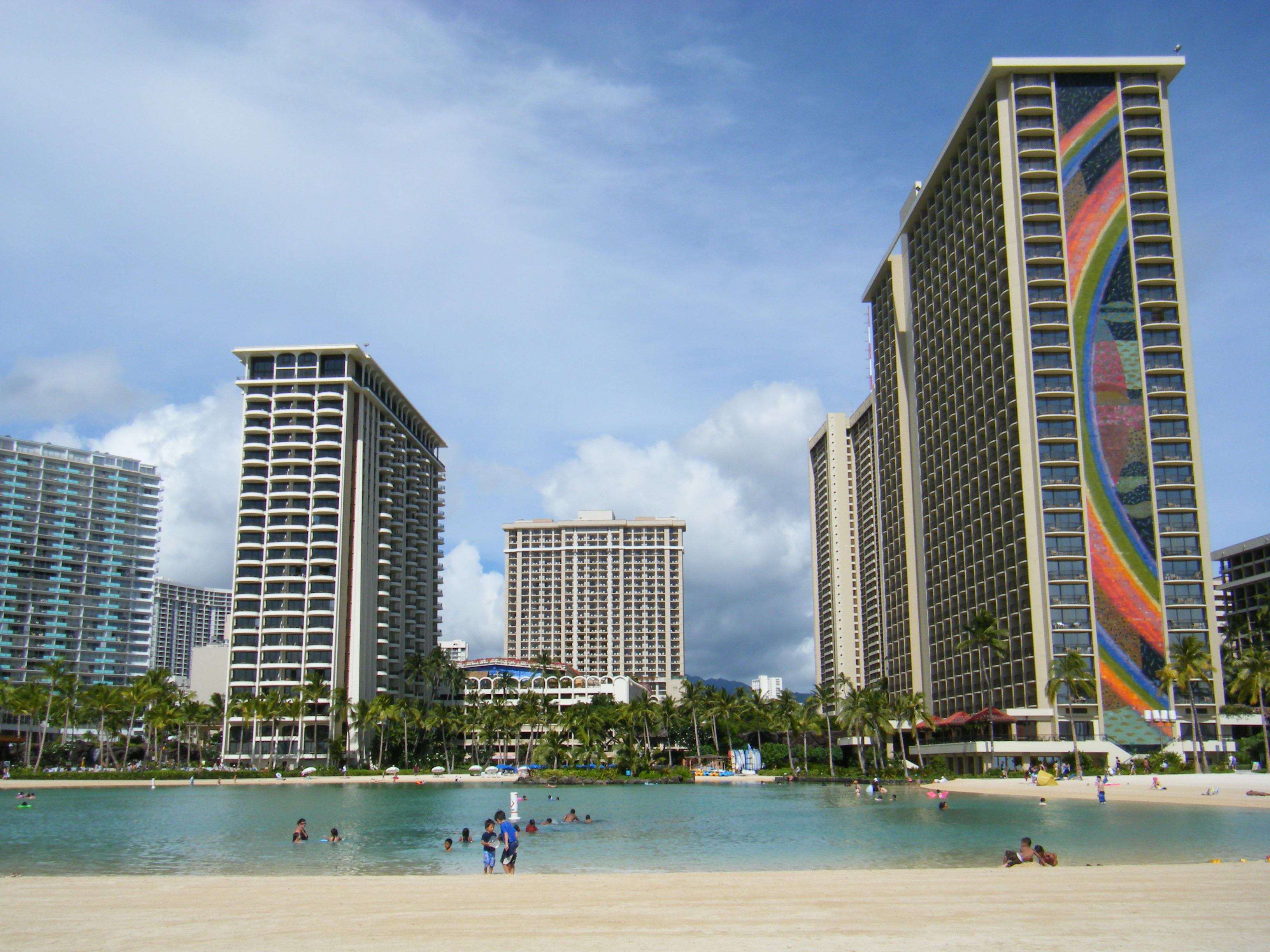 Dukes Lagoon facing North